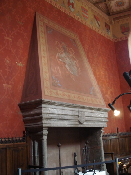 Fireplace in St Pierre castle